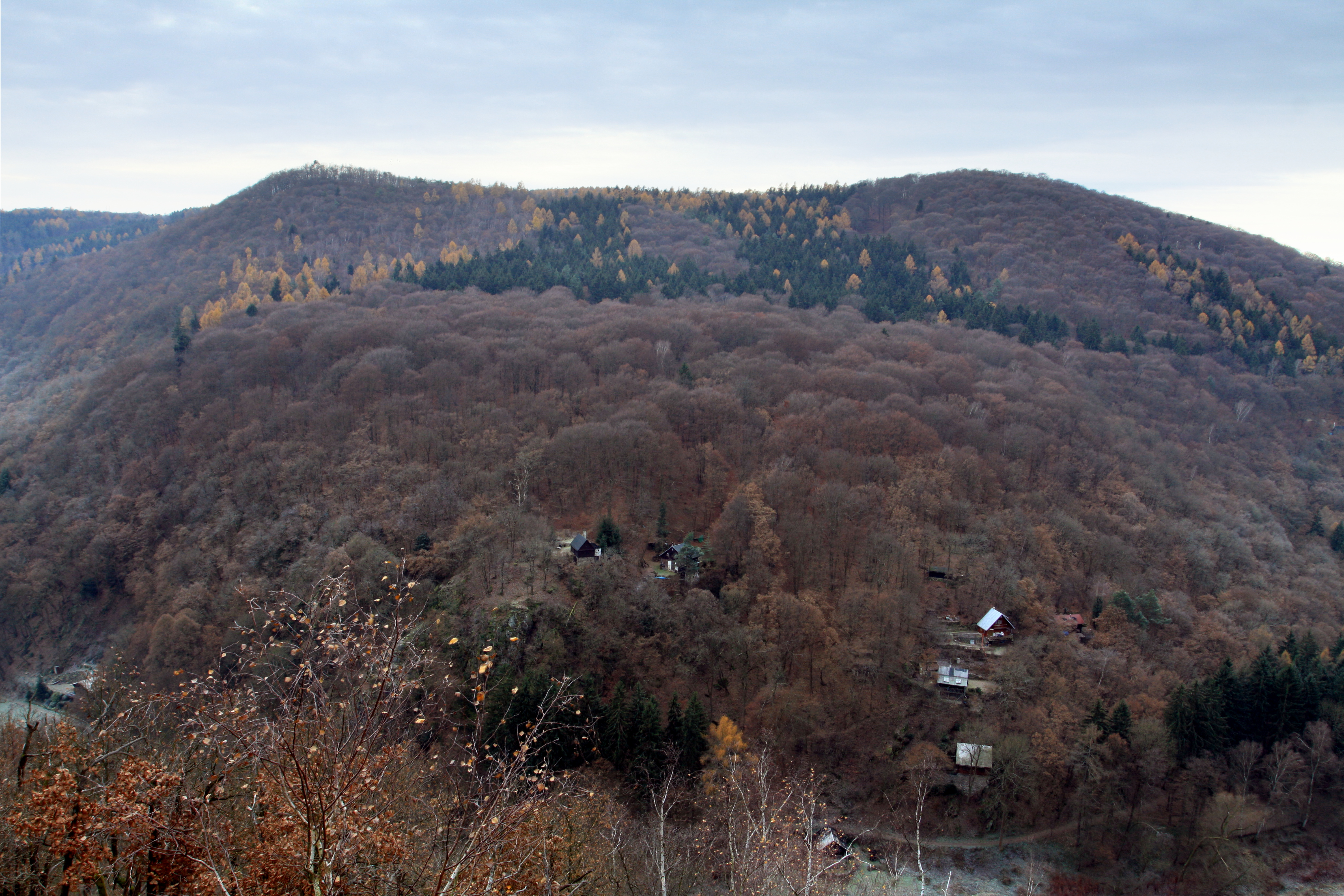 Natural monument Třeštibok in the valley of Sázava River located near Jílové u Prahy, District Prague-West, Czech Republic